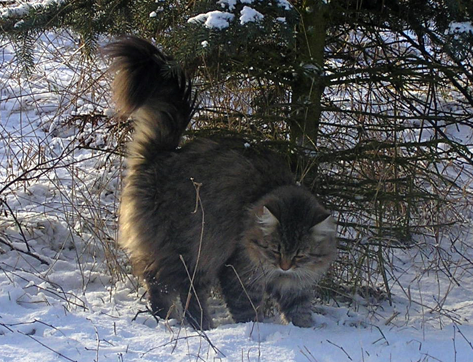 Siberian male sign his area